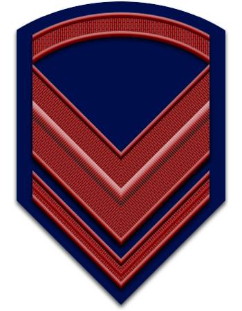 insignia for the sleeves of the rank of first senior airman of the Italian Air Force